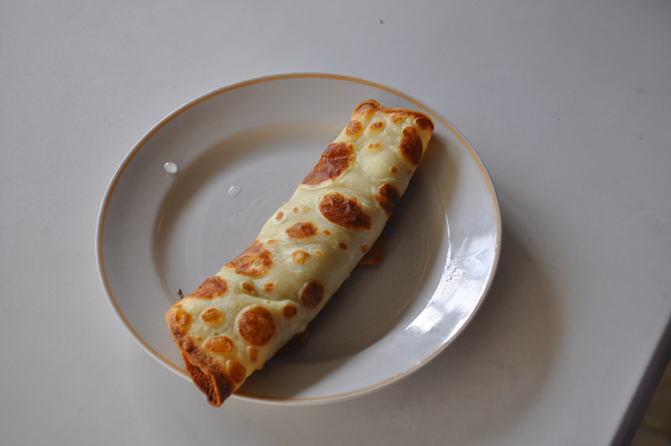 The Blin (Pancake) on the Dinner Plate.